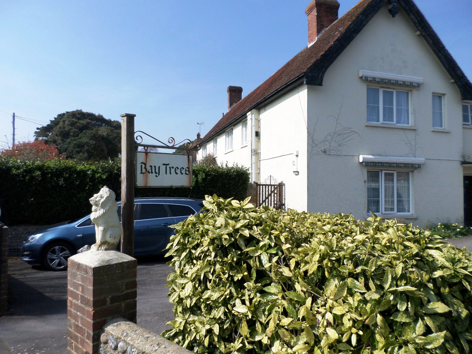 SAMSUNG CAMERA PICTURES